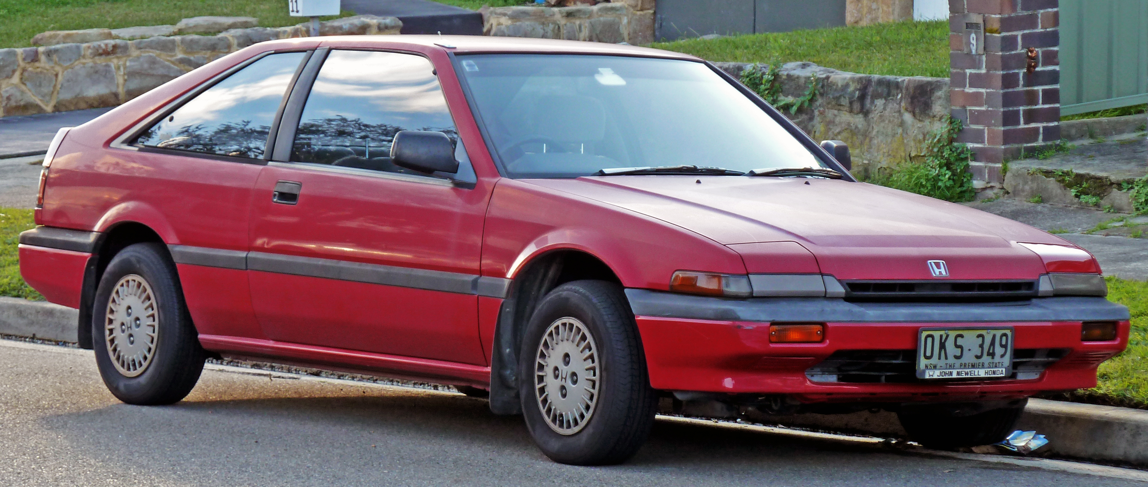 1987 Honda Accord Si hatchback. Photographed in Sans Souci, New South Wales, Australia.